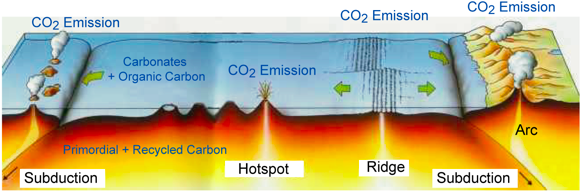 Figure depicting carbon outgassing through various processes (Dasgupta 2011)